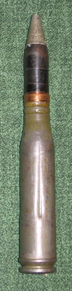 23 milimeter AAA shell for ZU-23-2 and ZSU-23-4 guns